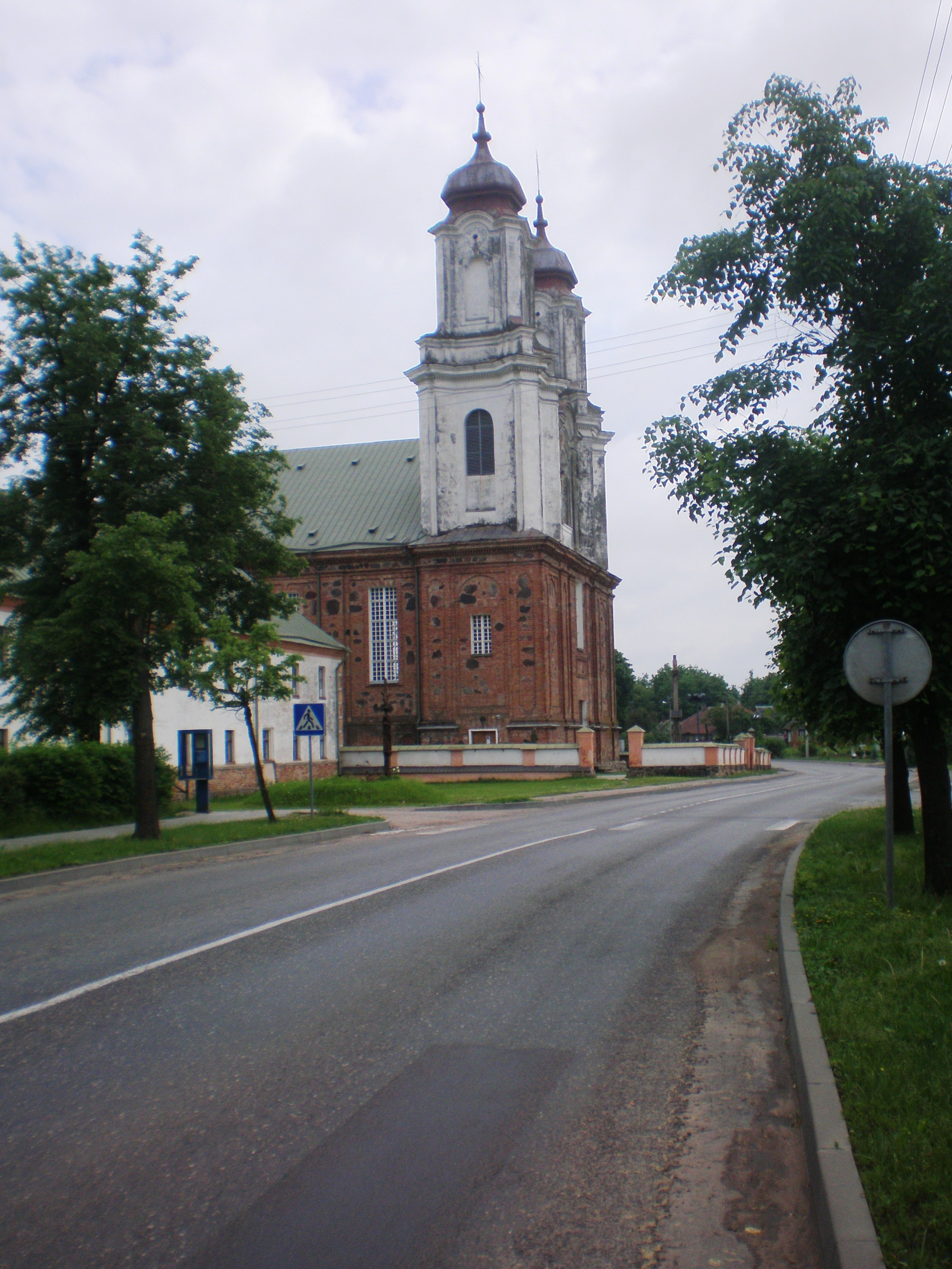 Church in Dotnuva, Kėdainiai municipality, Lithuania